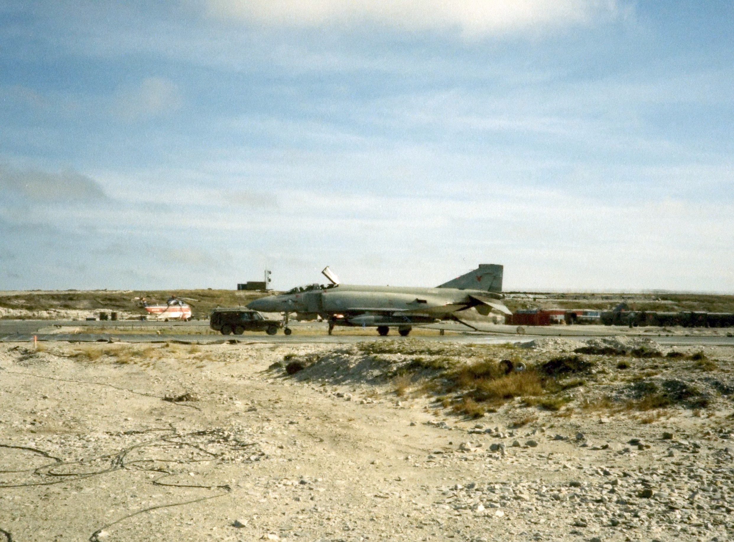 A Royal Air Force McDonnell Douglas Phantom FGR.2 from No. 23 Squadron the RHAG at RAF Stanley, in 1984.